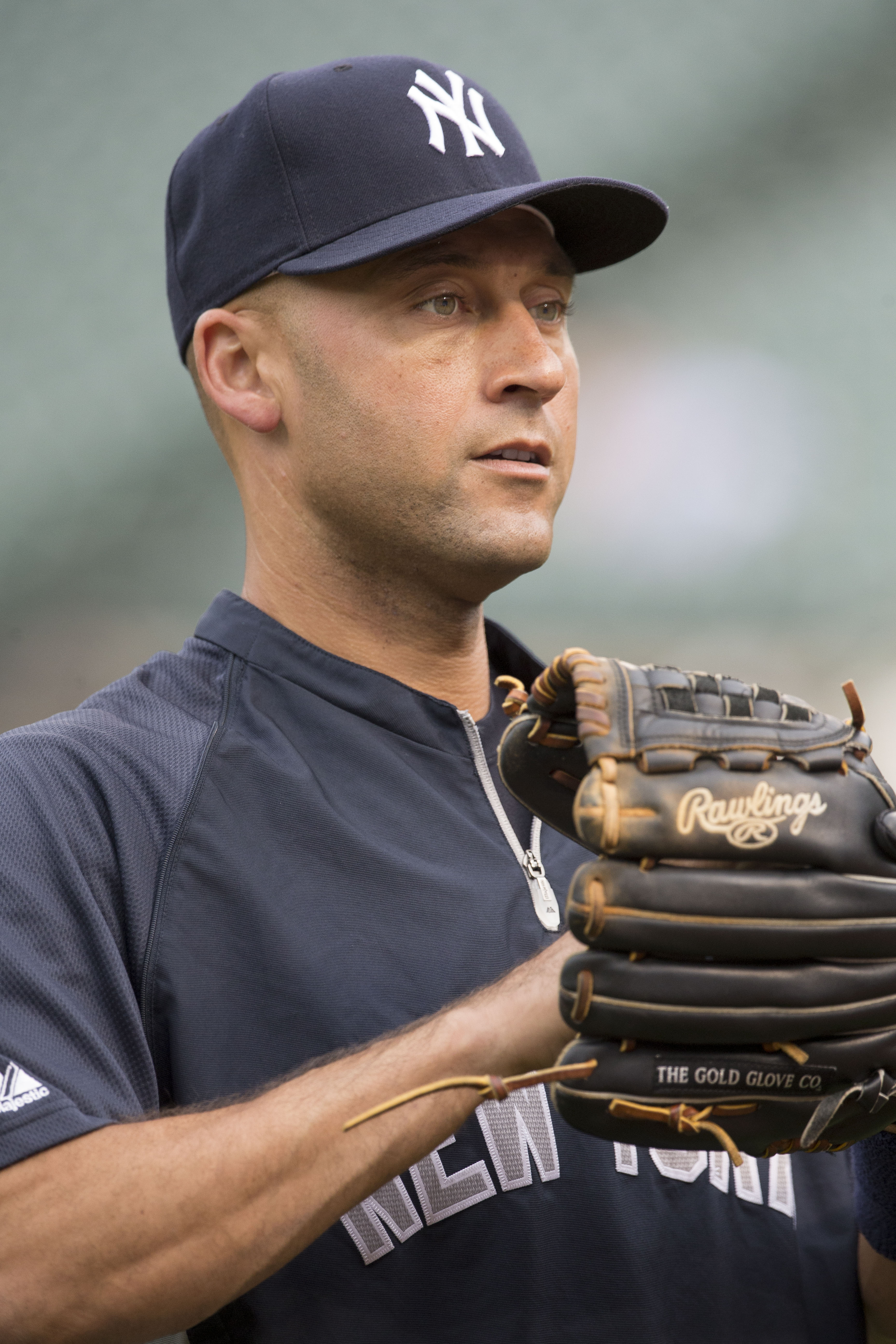 Yankees at Orioles 8/11/14